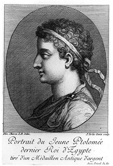 An engraving depicting the Ptolemaic ruler Ptolemy XIII of Egypt by French artist Élisabeth Sophie Chéron (1648 - 1711) entitled "Portrait du Jeune Ptolemée dernier Roi d'Egypte tiré d'un Medaillon Antique", from the book "Pierres Antiques Gravées Tirées des Principaux Cabinets de la France" (published c. 1736). The engraving is based on a medallion of Ptolemy XIII Theos Philopator dated to the 1st century BC, the Hellenistic period of antiquity.